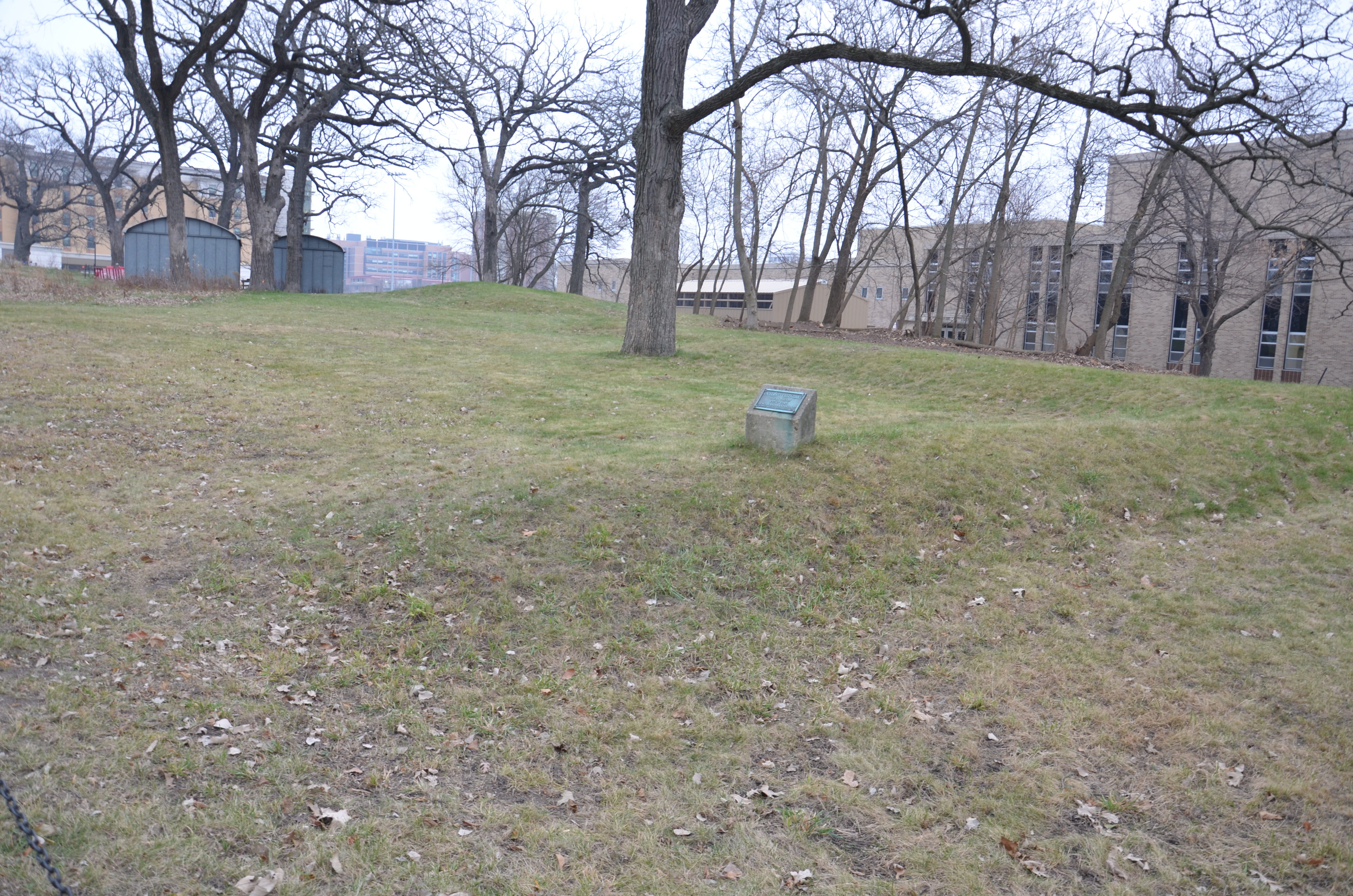 Willow Drive Effigy Mounds, DA119, University of Wisconsin-Madison